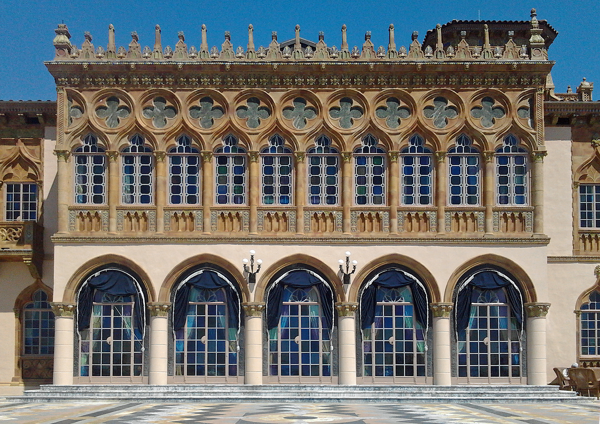 Bayside (west) façade of Cà d'Zan, Ringling Circus Museum, Sarasota, Florida, USA.